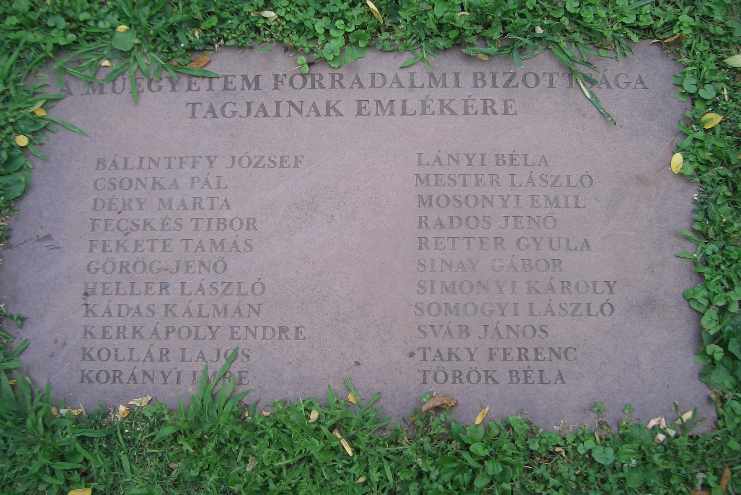 Memorial Stone commemorating the Students and Professors Movement in the 1956 revolution, Budapest University of Technology and Economics (BUTE), between Central (K) Building and the Library. Memorial plaque commemorating the leaders of the Revolutionary Committee of The University.